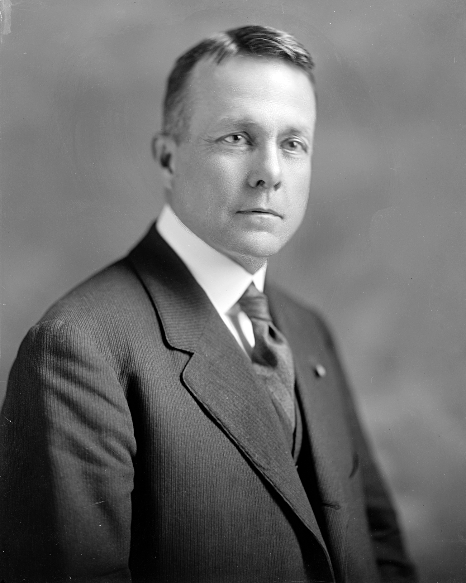 William Walton Griest, US Representative from Pennsylvania